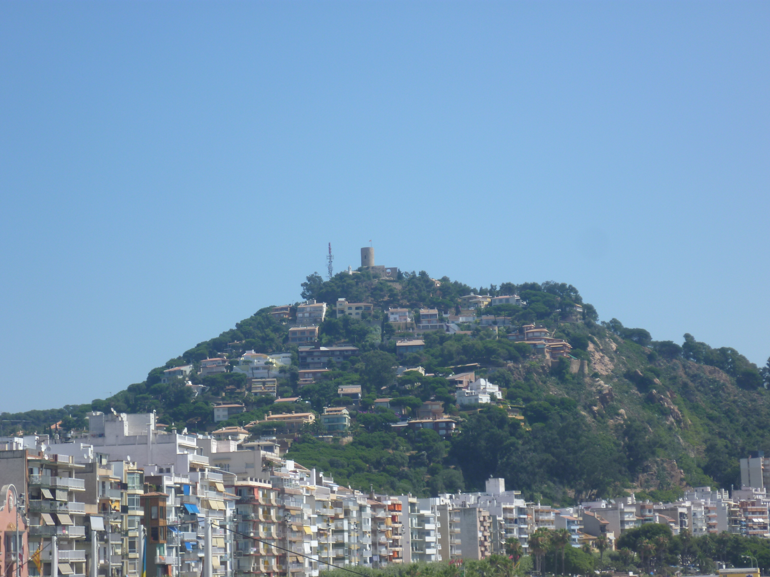 Blanes, Spain. view towards the old castle at the hill San Juan